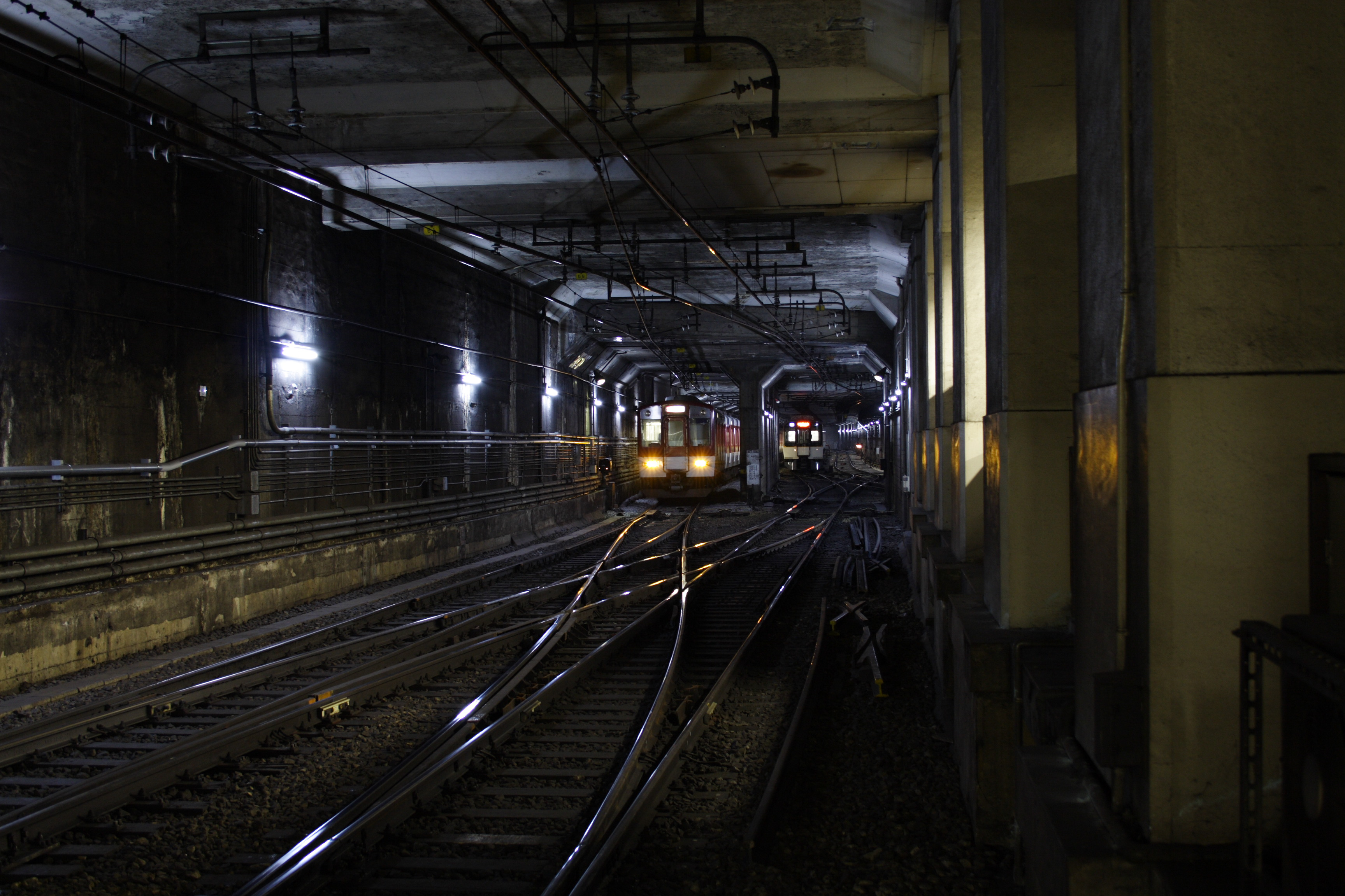 Nanba Station of Kintetsu / 近鉄難波駅の引き上げ線